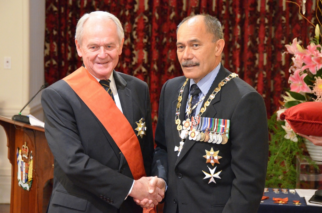 Professor Sir Murray Brennan, of United States of America, after his investiture as a Knight Grand Companion of the New Zealand Order of Merit for services to medicine, by the governor-general, Sir Jerry Mateparae, on 22 May 2015